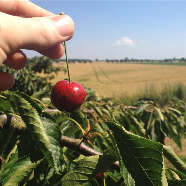 picking cherries